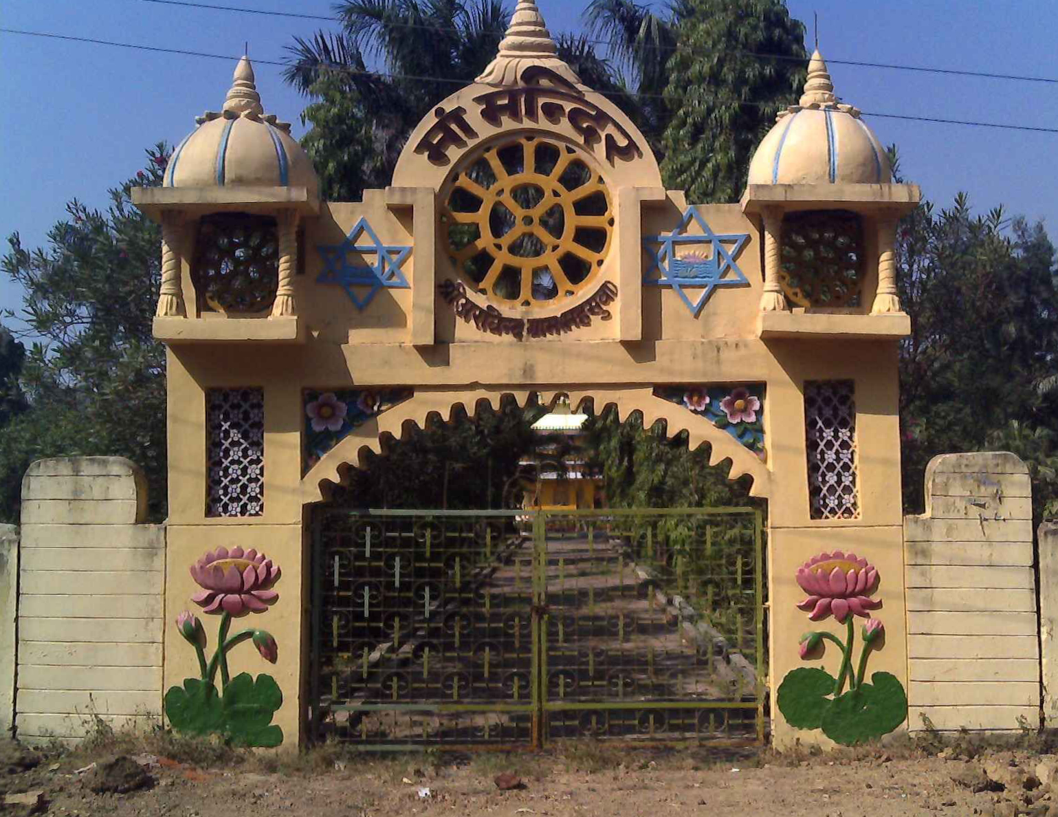 Entrance